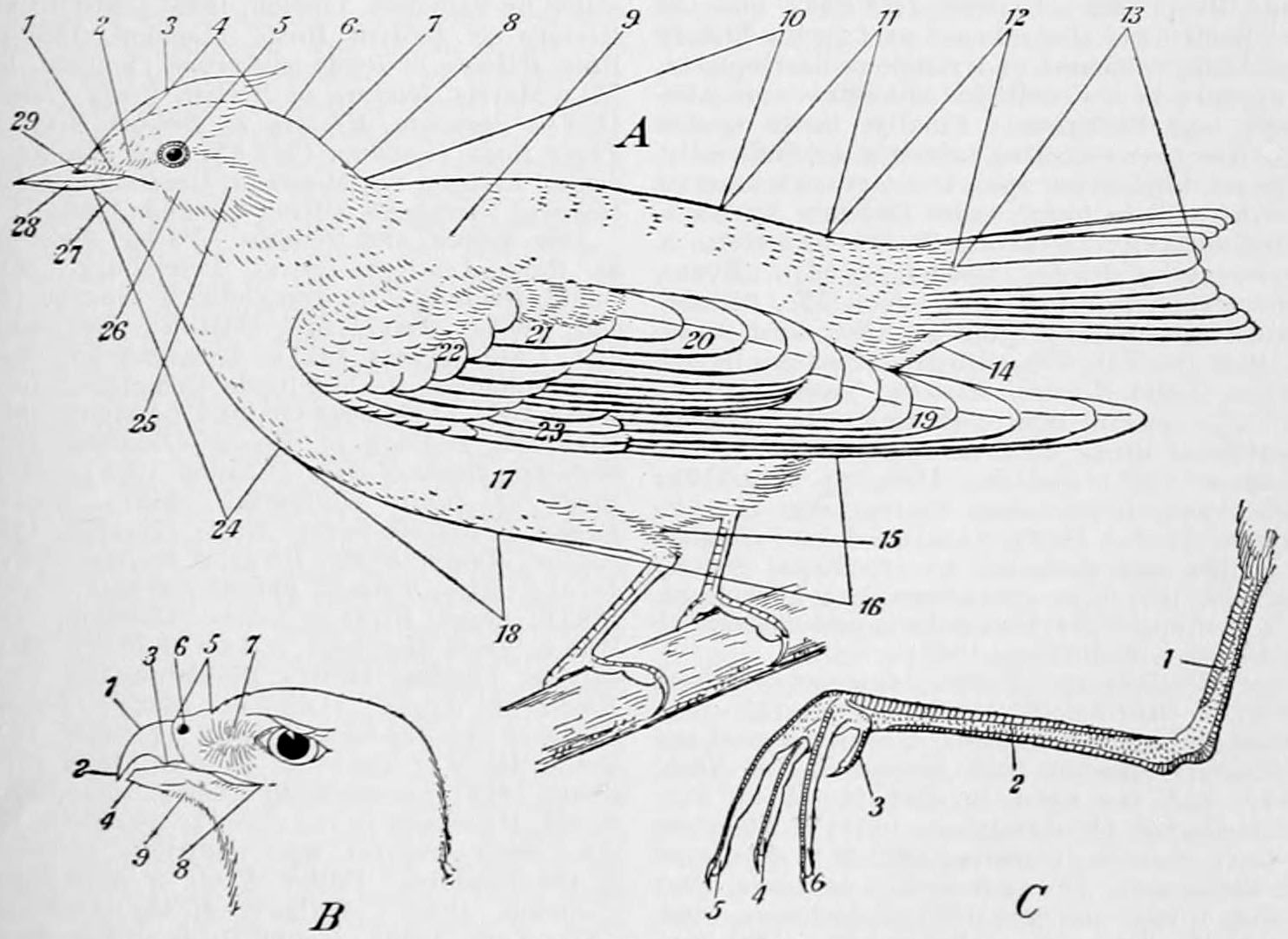 "Topography" of a bird: three labeled diagrams showing the names and locations of the parts: (A) one of the whole bird (plumage), (B) one of a bird head, and (C) one of a bird leg.